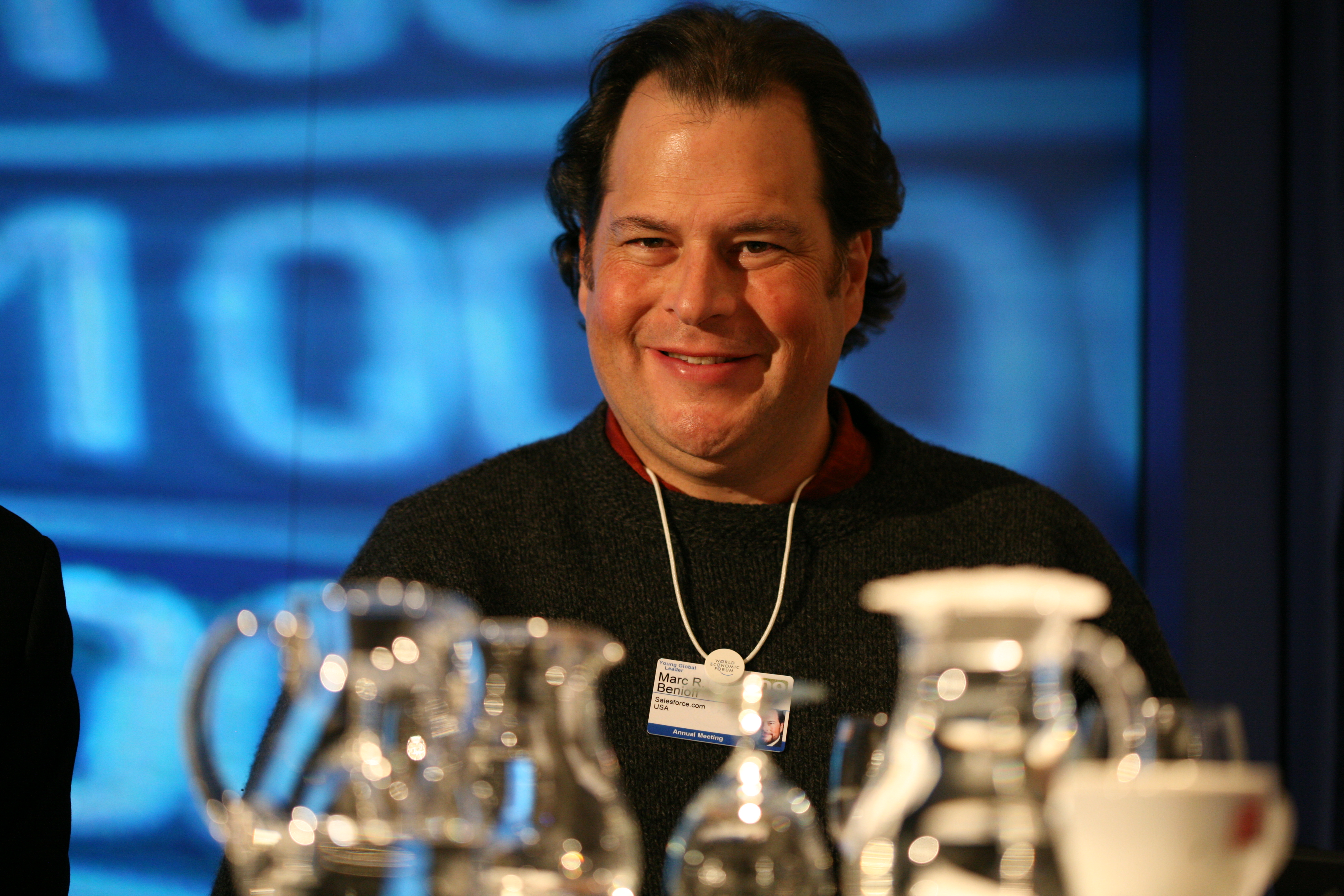 Marc Benioff, CEO of